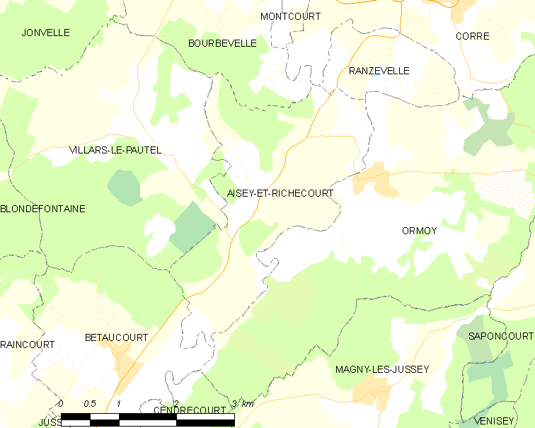 Map of French municipality